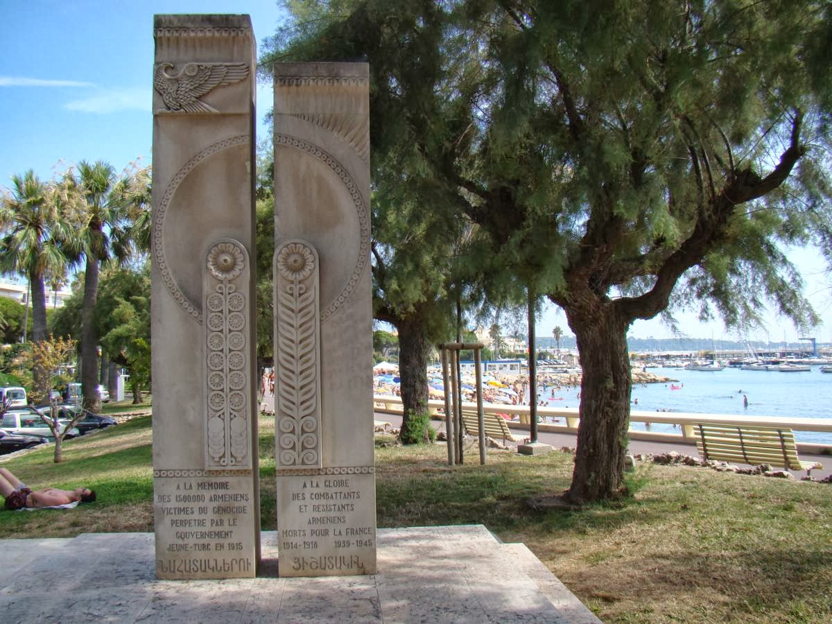 Monument in armenian garden in Cannes